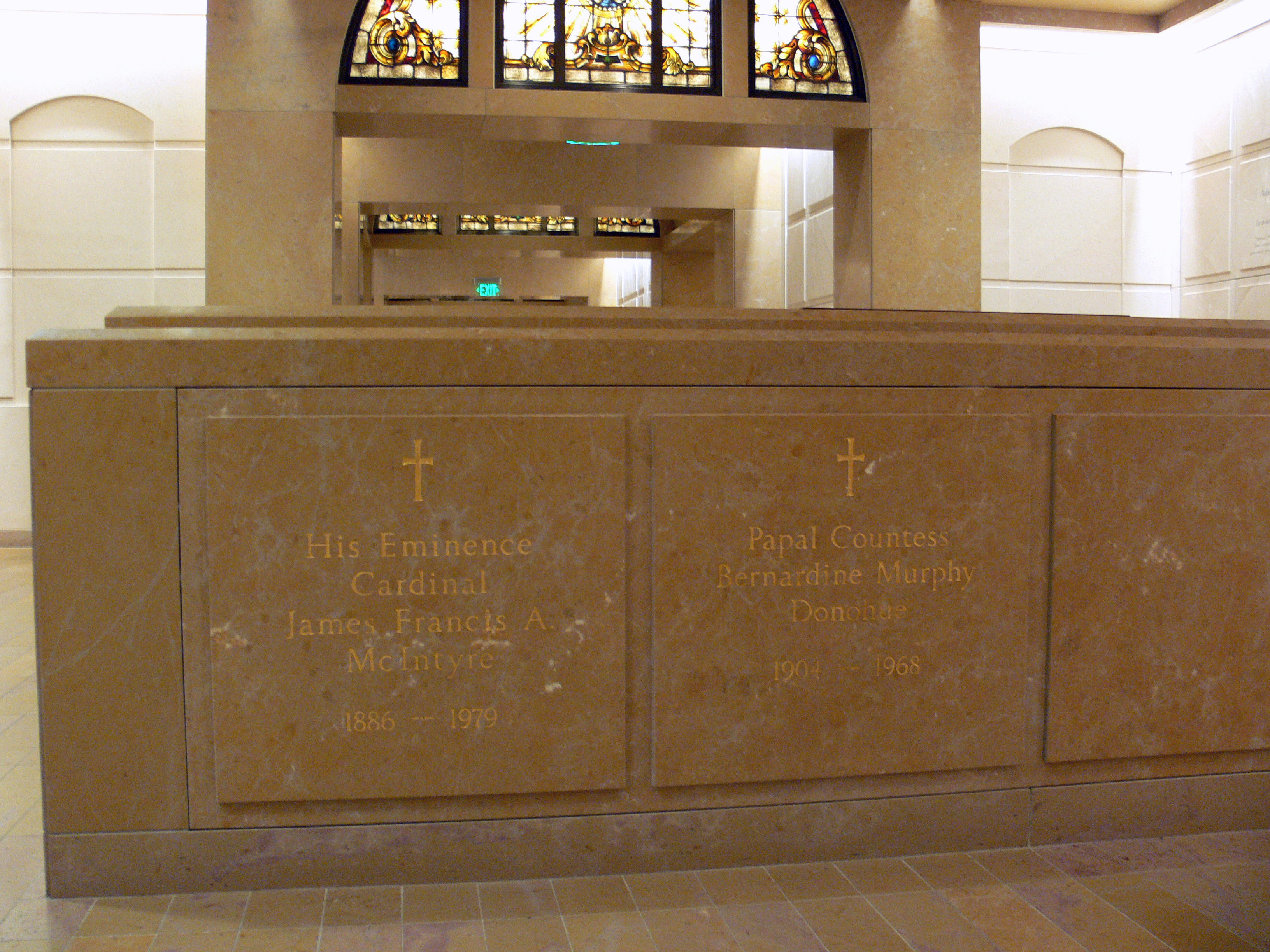 Roman Catholic Cathedral of Our Lady of the Angels, Los Angeles, California Grave of James Cardinal McIntyre